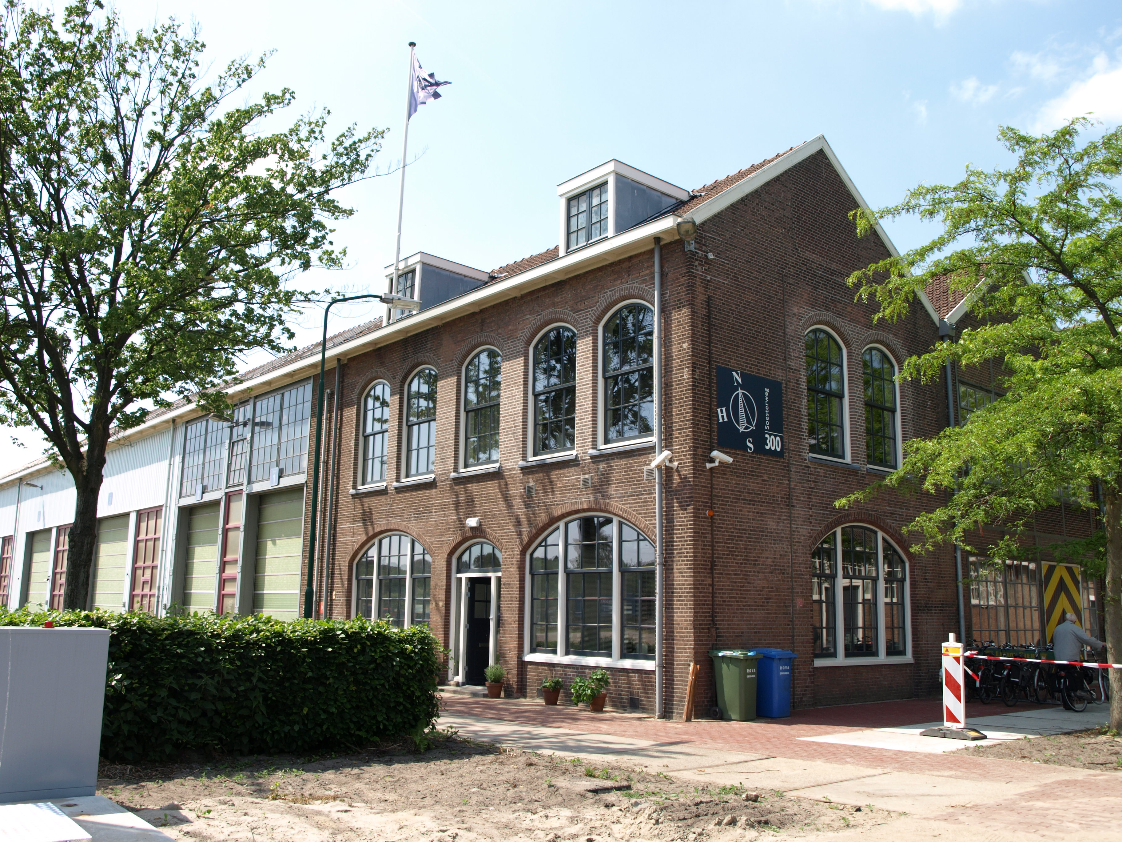 Amersfoort Railway Workshop (Nl)